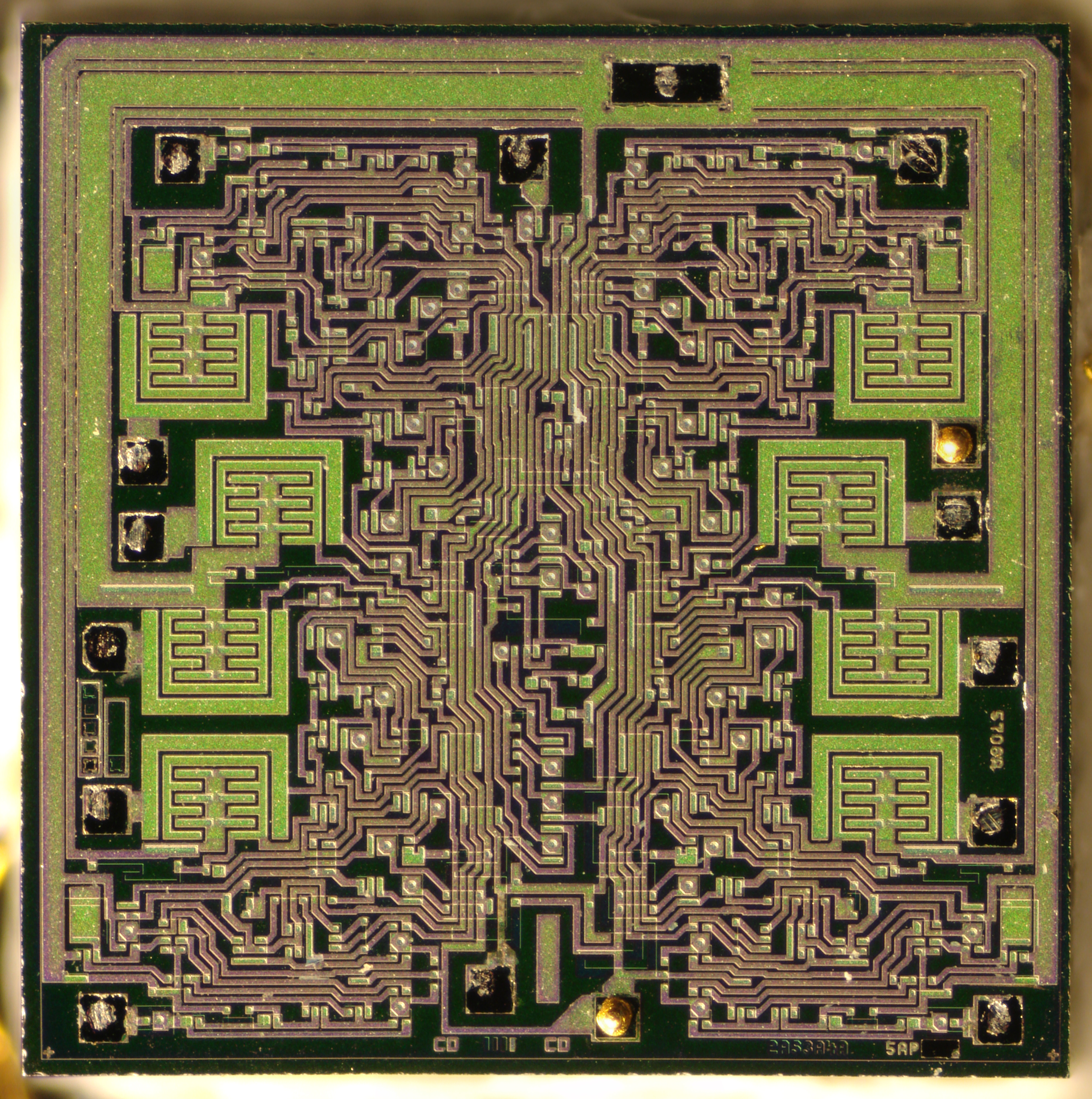 Signetics Corporation NE558D 0136O07 9331KK KOREA